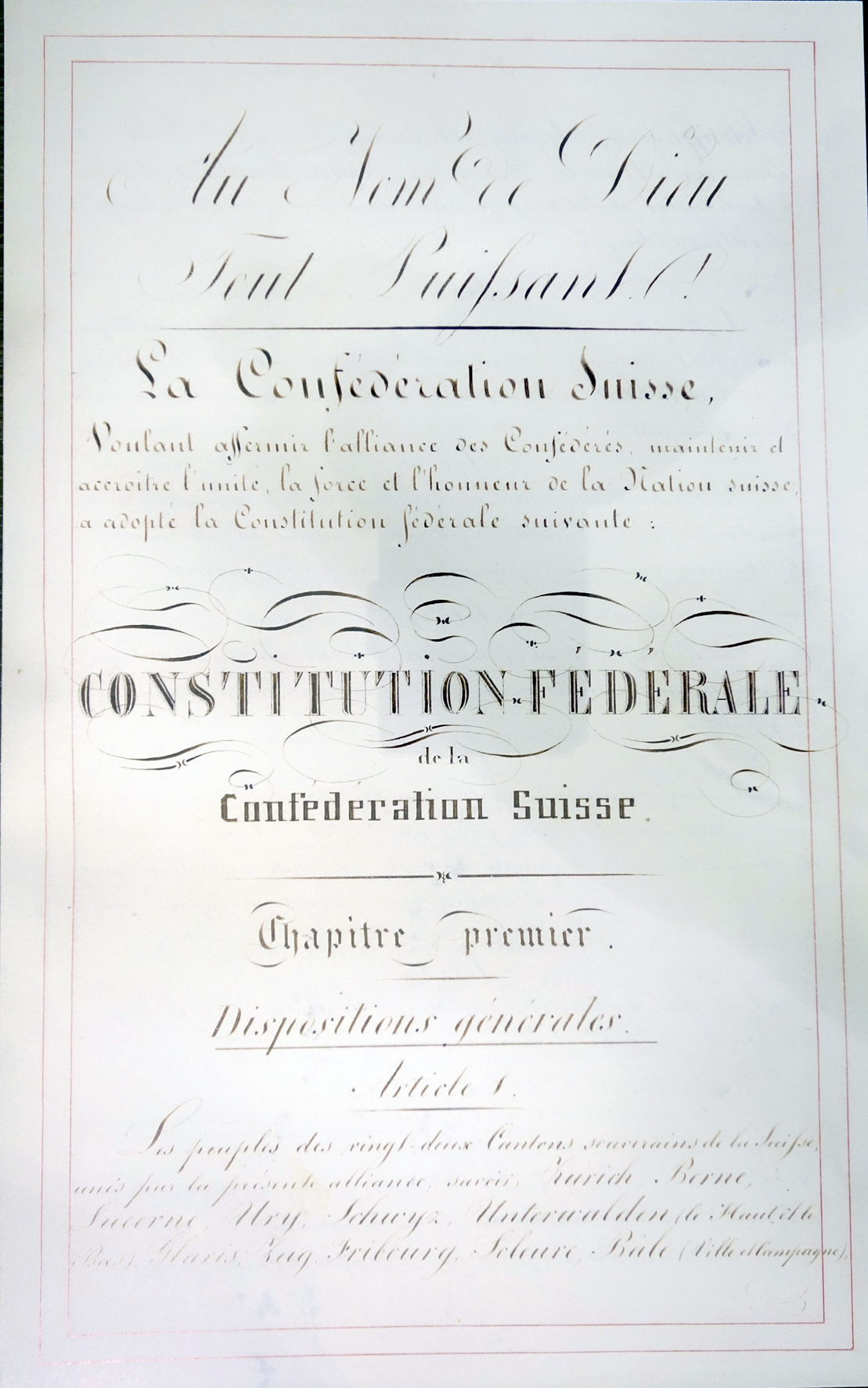 Swiss Federal Constitution 1848 - French (1st page)